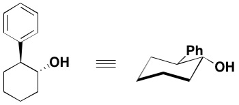 (1R,2S)-2-phenylcyclohexanol�